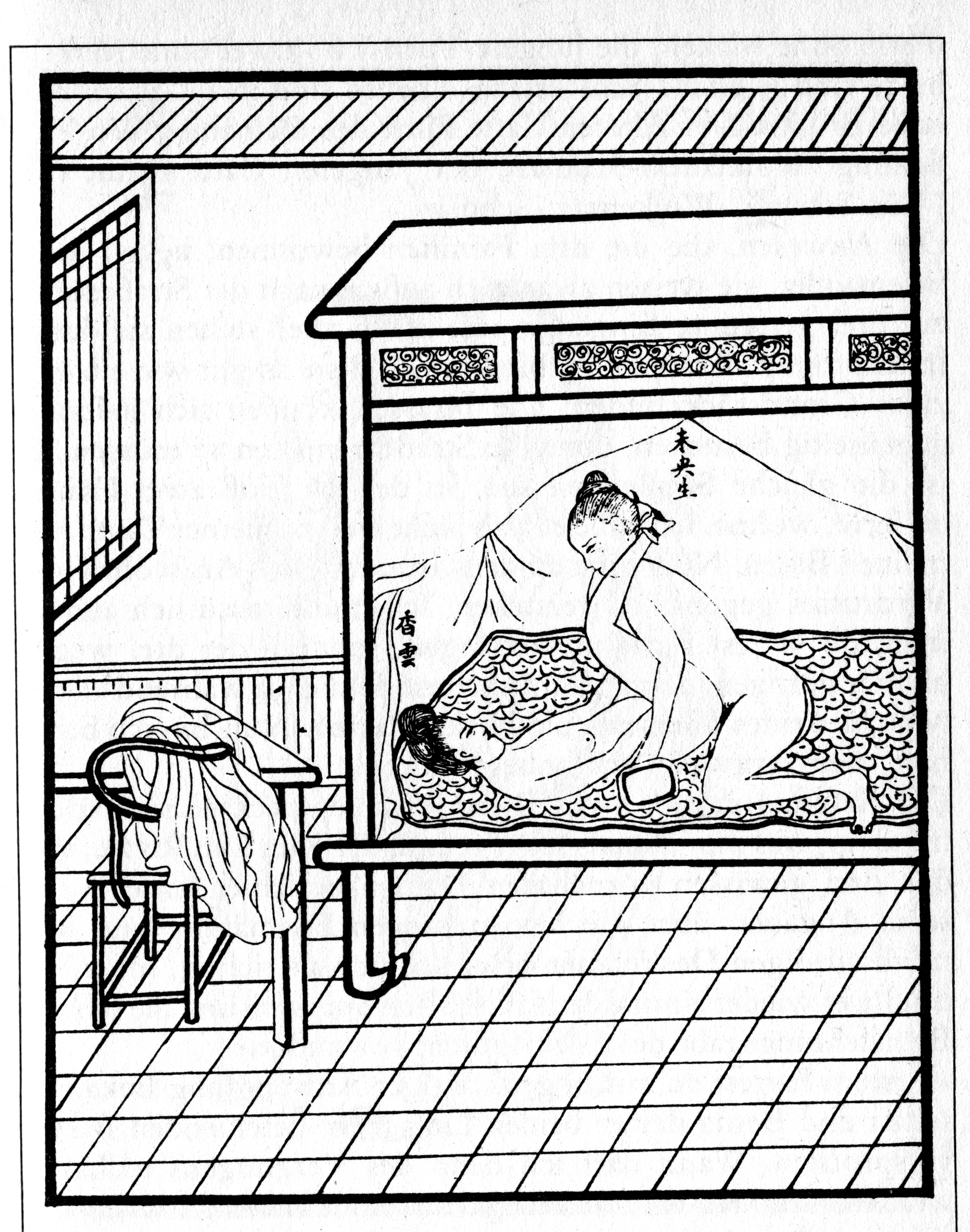 1984 woodcut for rouputuan